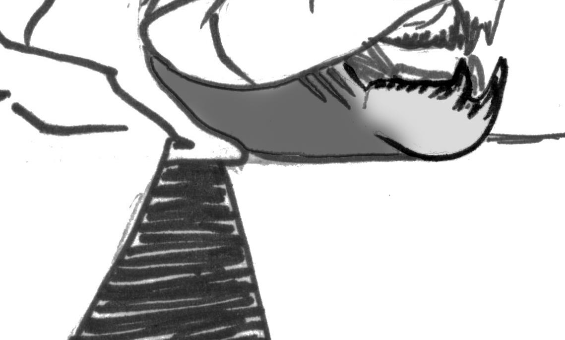 Lower jaw of the arthrodire placoderm Dinichthys herzeri